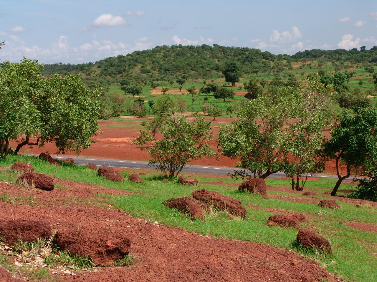 "Road Bamako-Kayes: Low rolling hills on the way to Kayes." The Sahelian forest, in the Sahel sub-Saharan savanna ecoregion. *Trees in foreground are Acacia, note the large Baobab tree in the rear center. The paved road running through image is the main Kayes to Bamako road, the paved section near Macina.